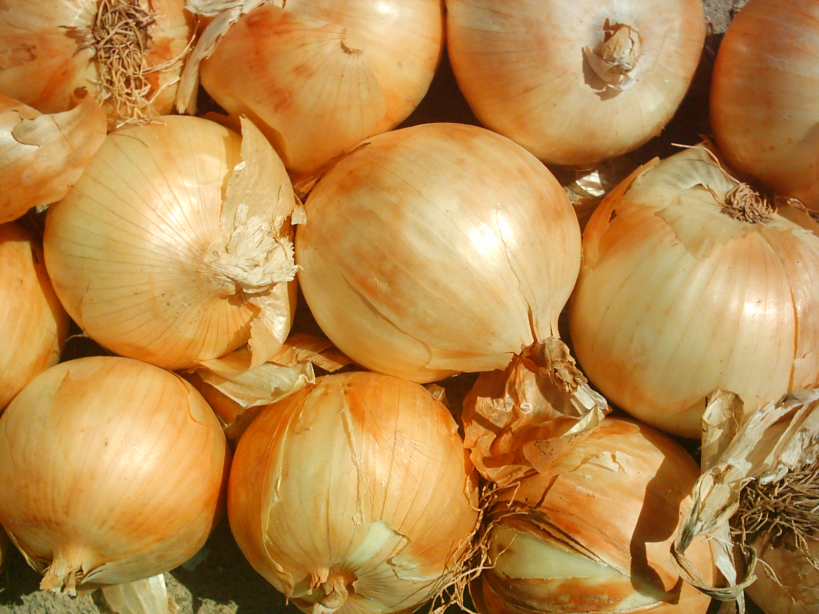 Bolaños's Onions